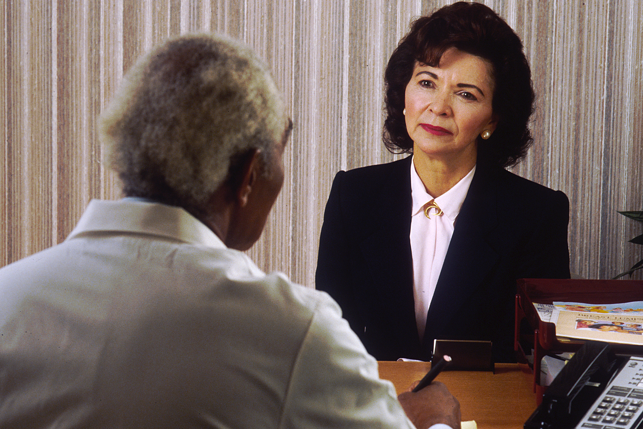 Title Doctor Advises Patient Description An African-American doctor (back to camera) advises a female patient. Topics/Categories People -- Adult People -- Health Professional and Patient Type B&W, Photo Source National Cancer Institute